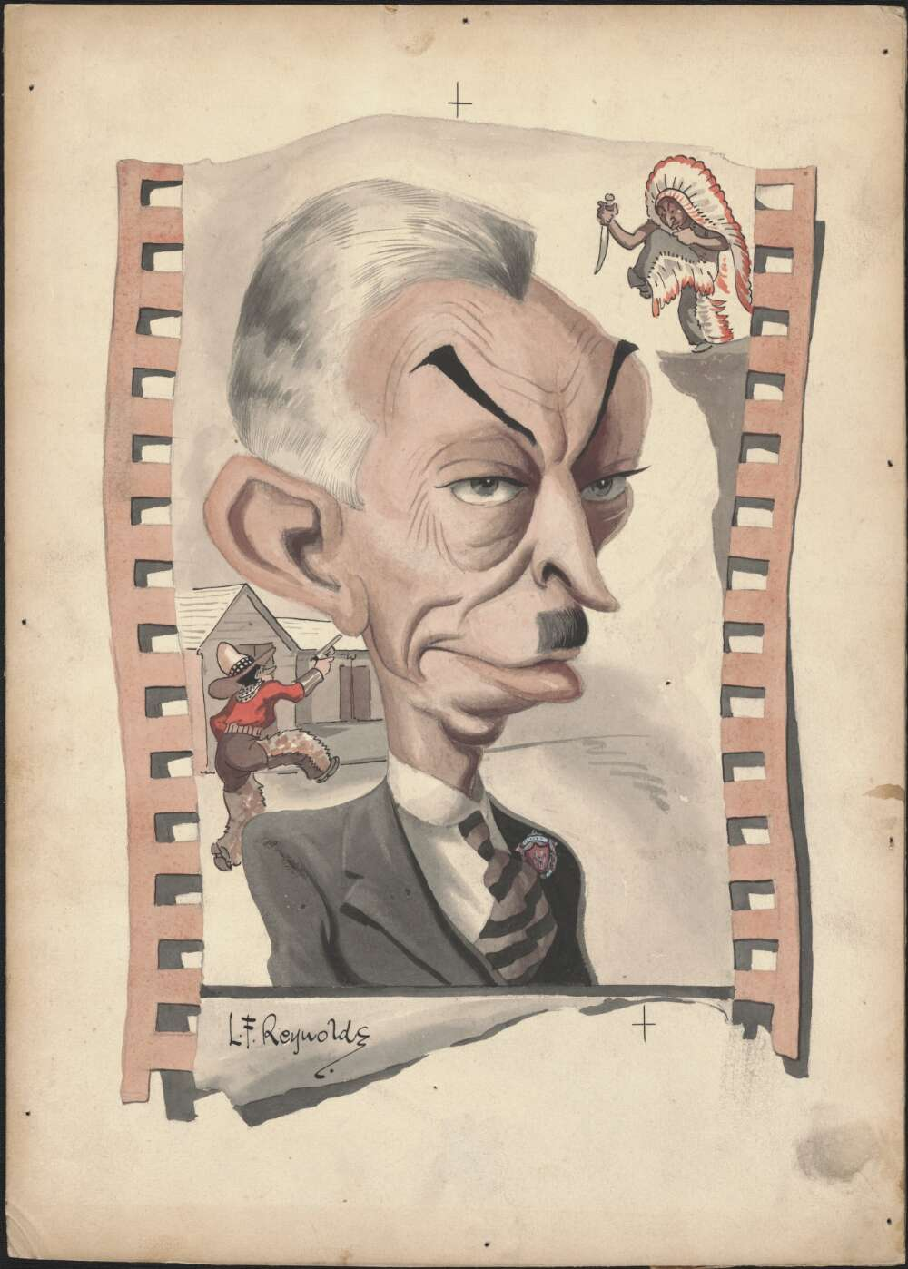 Portrait of William Alfred Gibson, Australian film producer and businessman